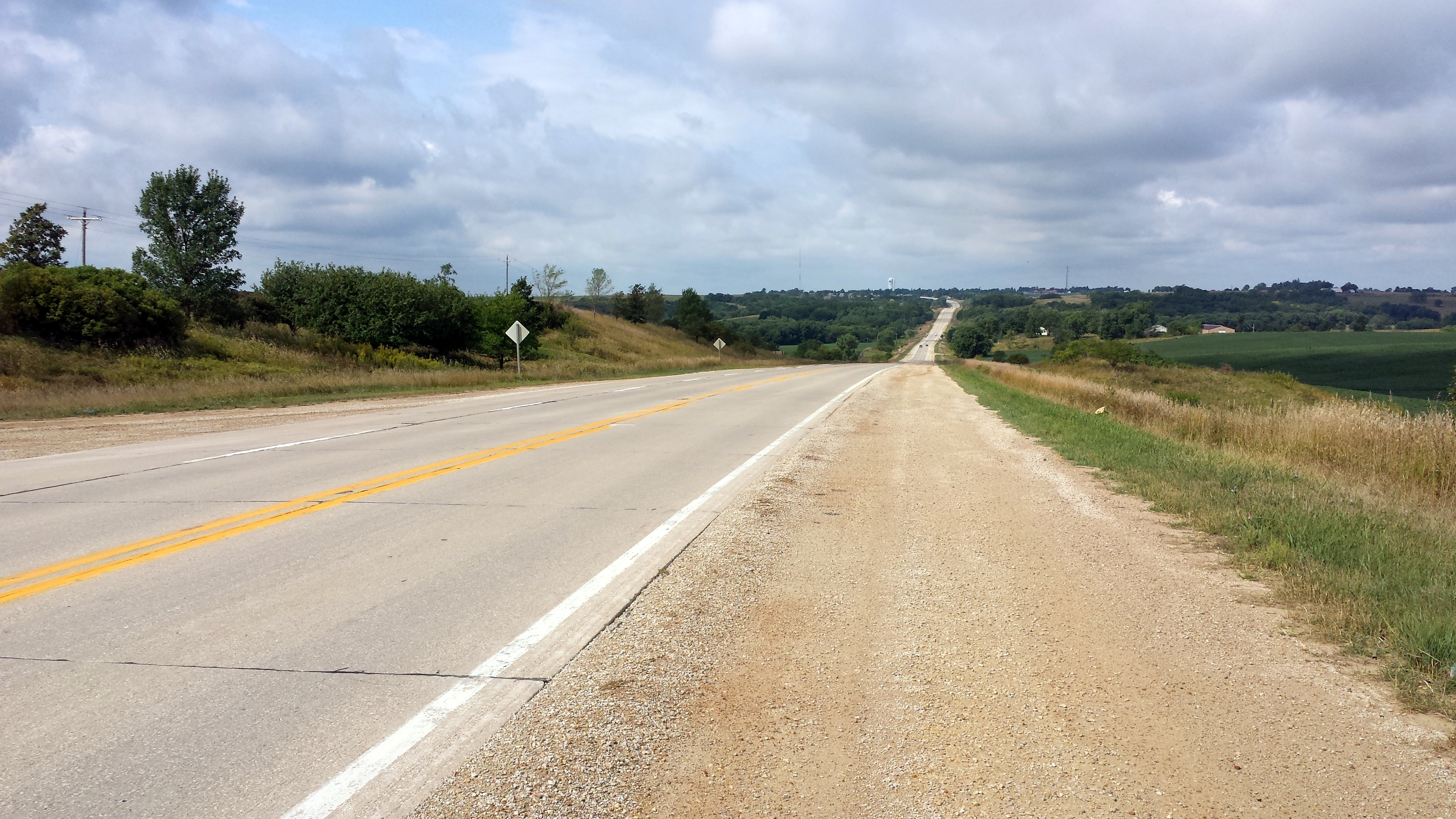 Iowa Highway 44 east of Guthrie Center. This is part of the Western Skies Scenic Byway.